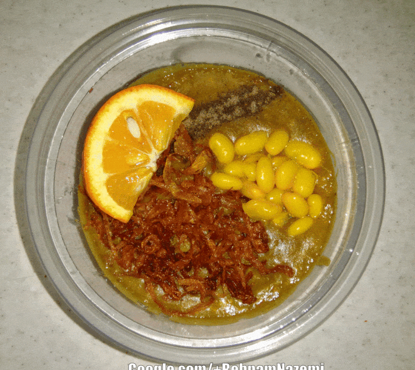 Iranian Hodge-Podge (Ash)